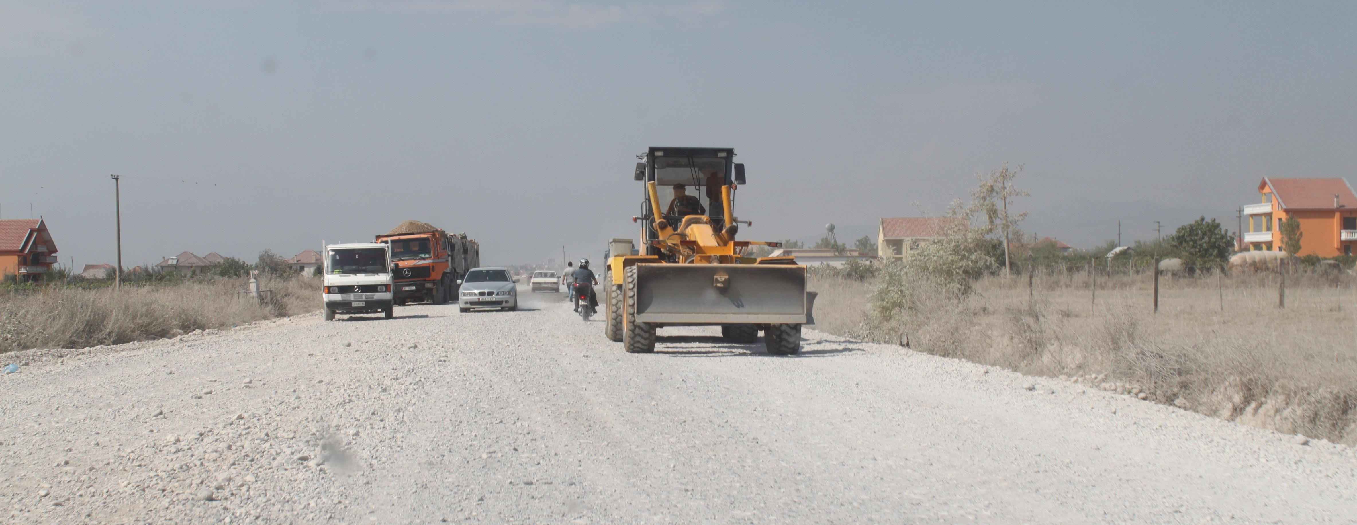 Highway construction site SH1/E762, between Shkodra and border crossing Bozaj. Of the 34 KM distance some 20 KM are gravel road. Construction vehicles, however, were seen only sporadically. The graders were hard at work and came towards me on my lane unsecured